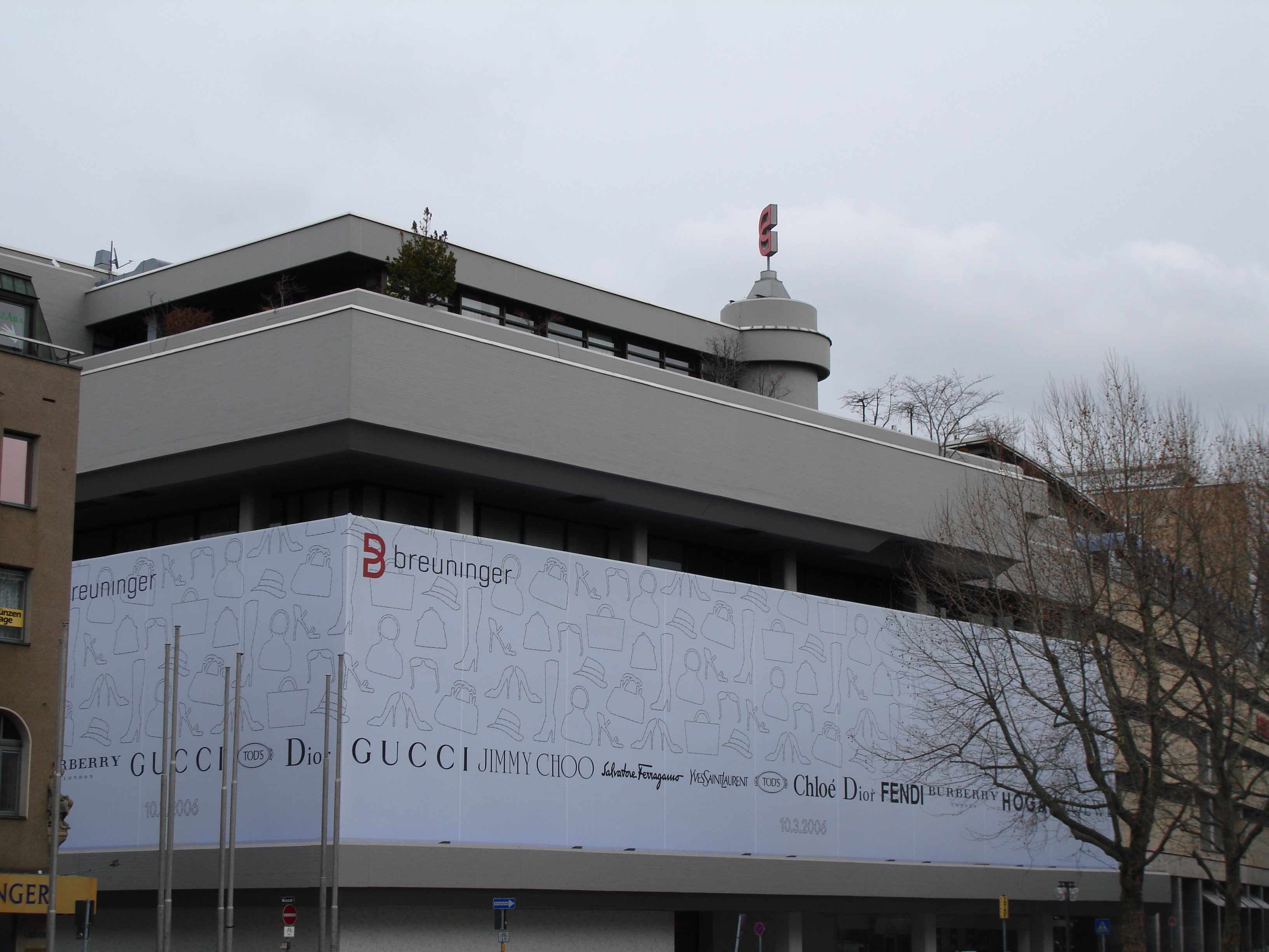 Breuninger parent house in Stuttgart